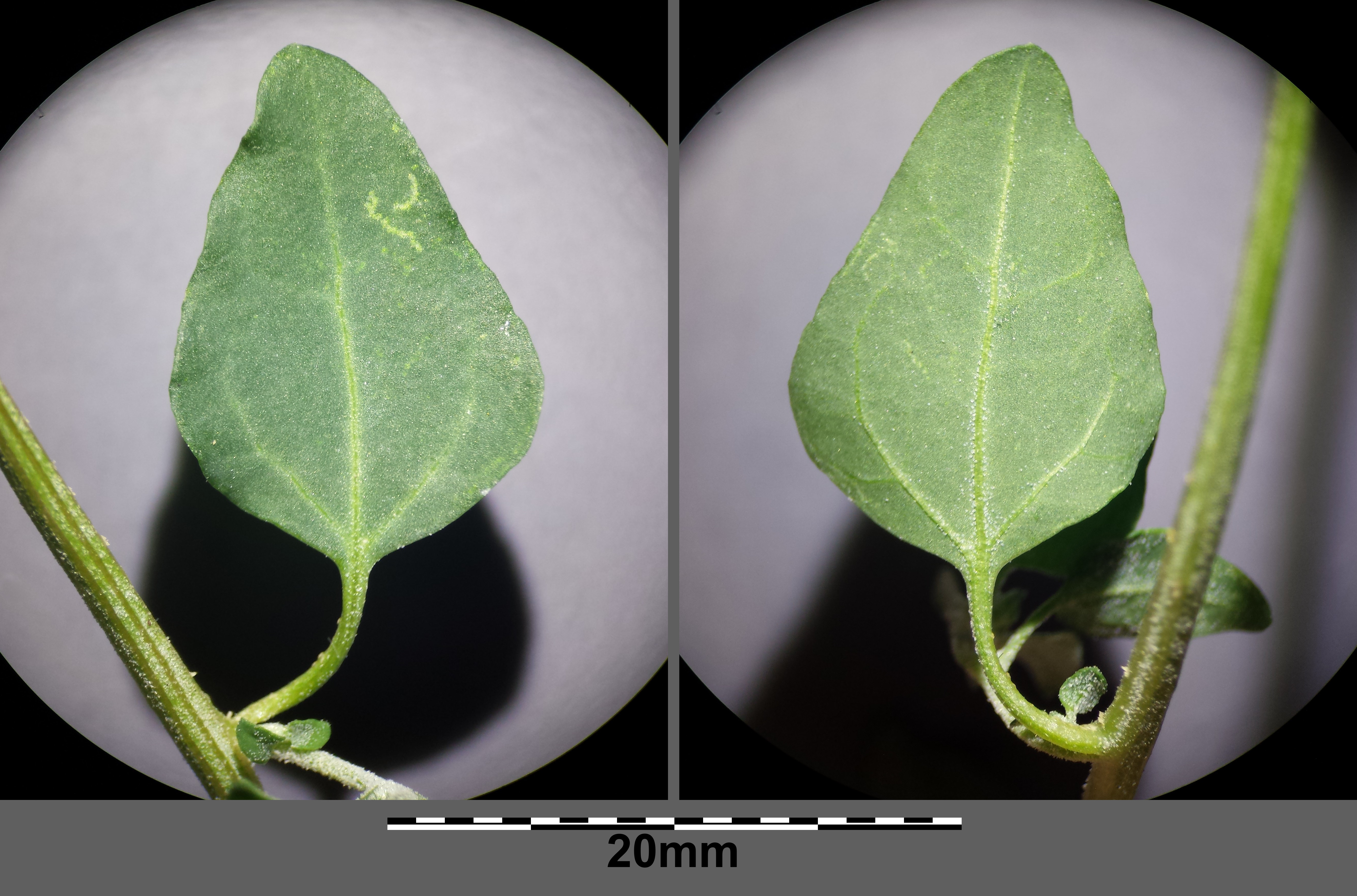 Leaf Taxonym: Chenopodium vulvaria ss Fischer et al. EfÖLS 2008 ISBN 978-3-85474-187-9 Location: Kagran, Vienna-Donaustadt - ca. 160 m a.s.l. Habitat: wall base